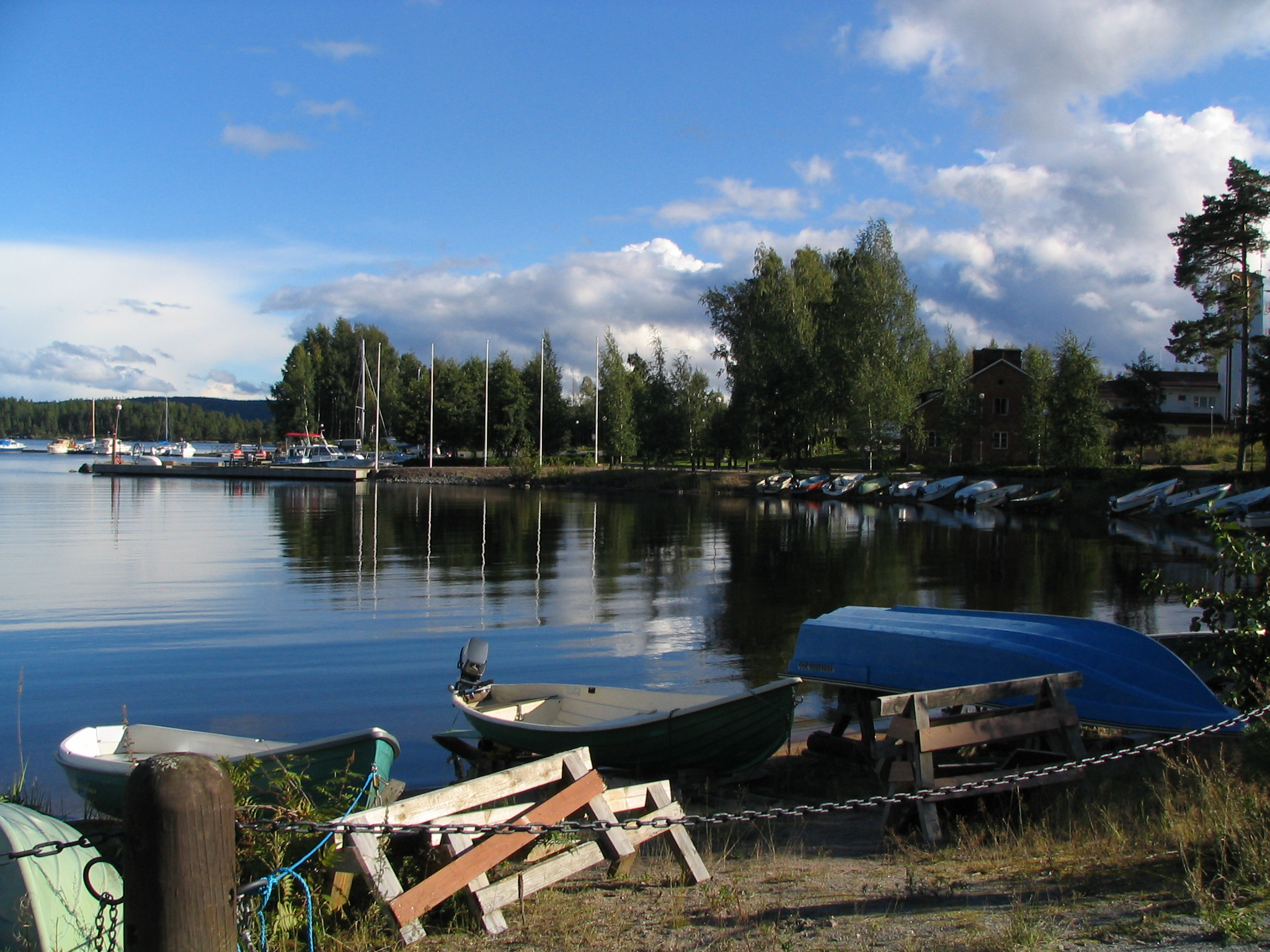 Harbour of Säynätsalo, Jyväskylä, Finland